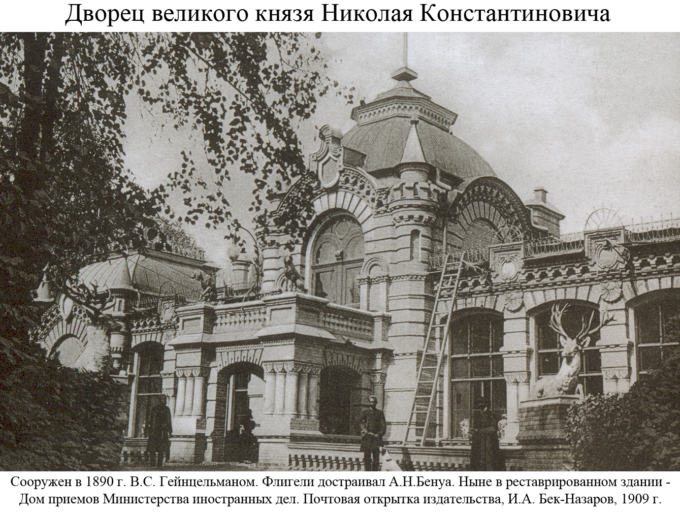 Palace of Grand Prince Nikolai Konstantinovich. Constructed in 1890 B.C. Geyntselmanom. Wings finishing work A.N. Benya. Now, in a restored building - Reception House of the Ministry of Foreign Affairs. Postcard publishers, I.A. Bek-Nazarov, after 1909